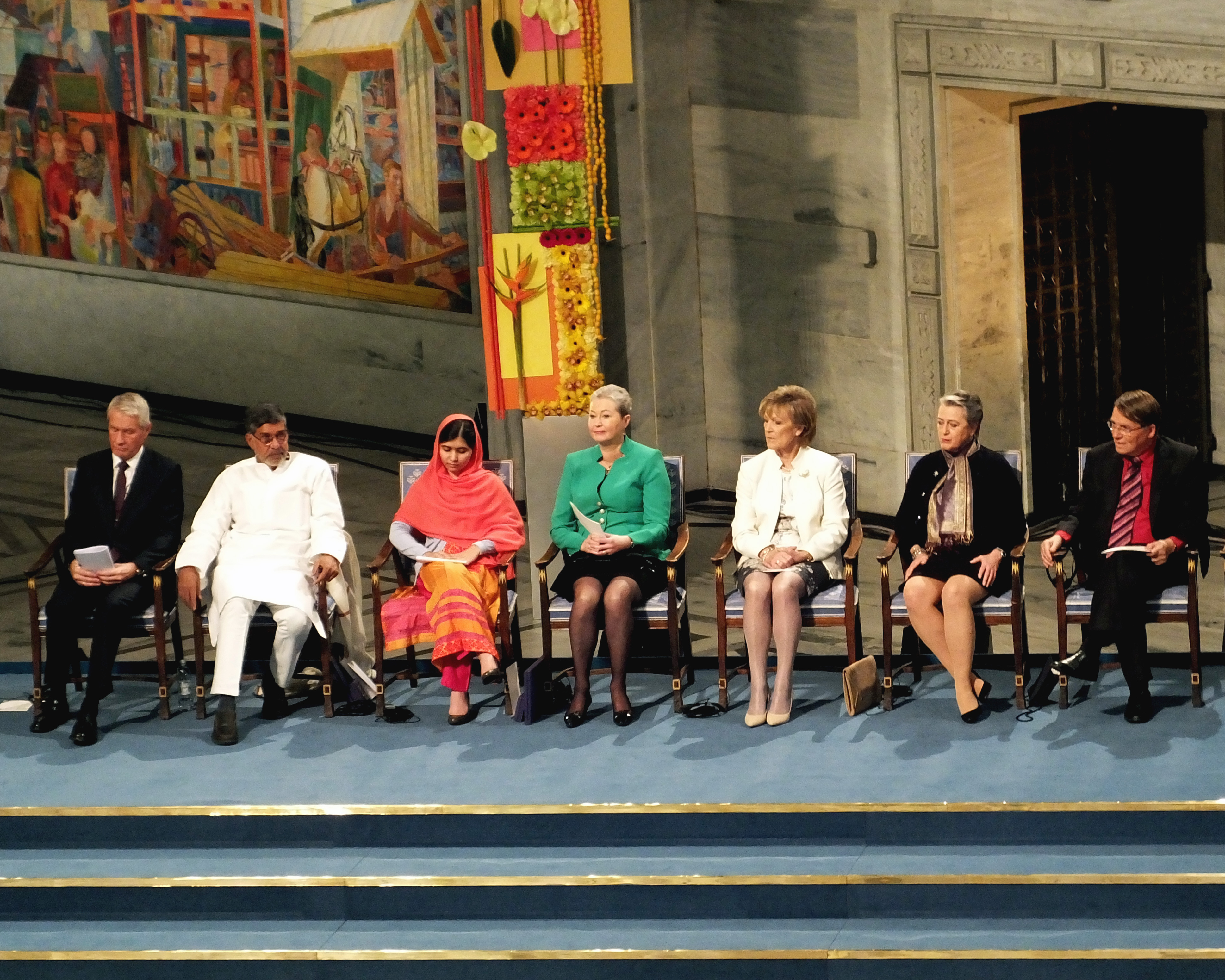 Malala Yousafzai and Kailash Satyarthi at the Nobel Peace Prize ceremony in Oslo Dec. 19 2014.